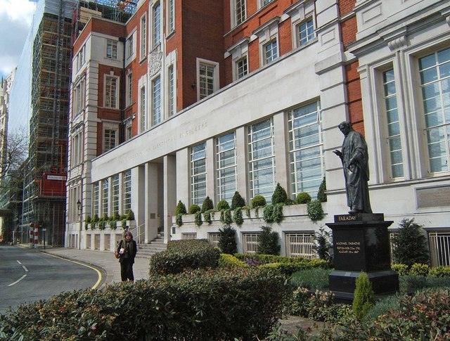 The IET. This is Savoy Place and the Institute of Engineering Technology (IET) Formerly the Institute of Electrical & Electronic Engineers the name change came after a merger with the Institute of Incorporated Engineers. The Statue is of 757190